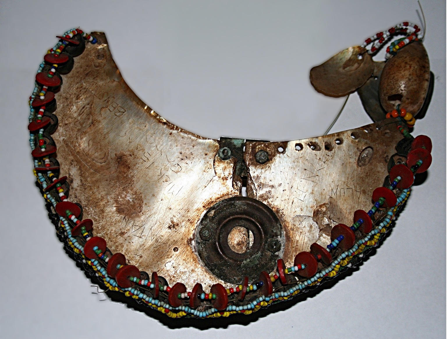 It is a composite image of Kula arm bracelet . You could see the names of the peolpe, who owned the bracelet, written all over. The insert shows Kula items at Nabwageta Island Papua New Guinea. Both pictures were taken by me. The insert is a digital picture of my old film pictire.